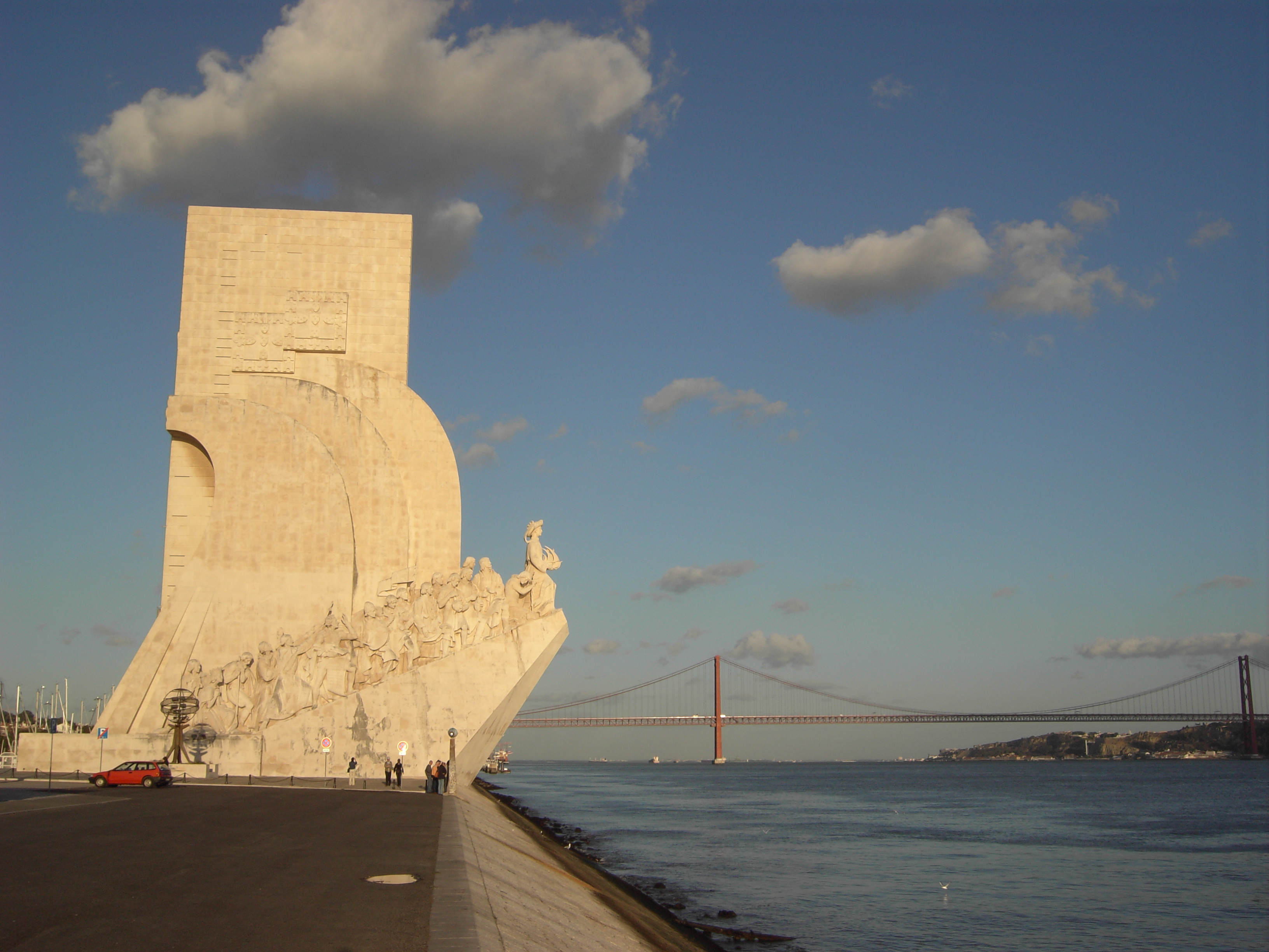 Monument to the Discoveries, Lisbon, Portugal